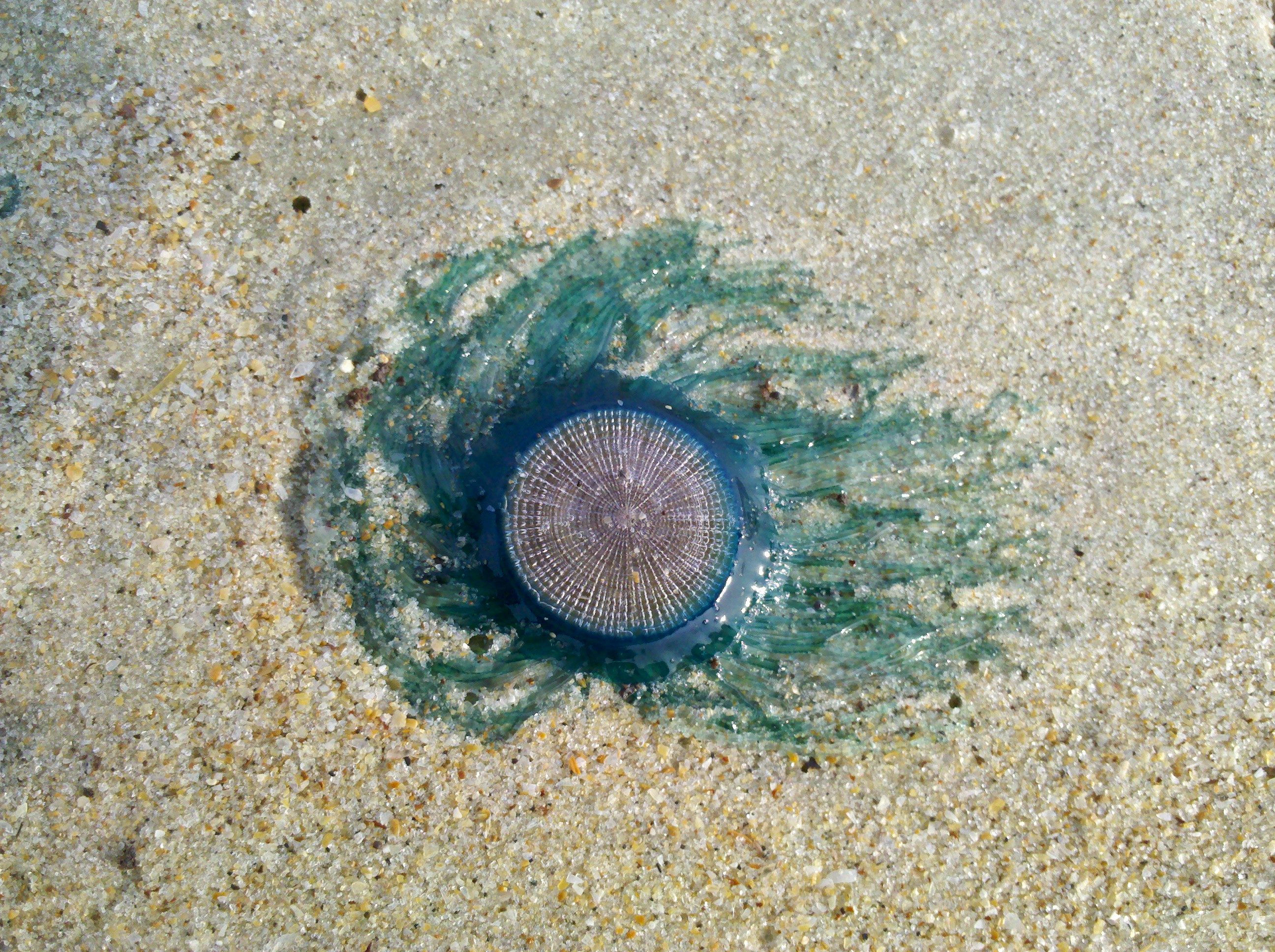 Image of (Porpita porpita) Blue button, found on Uttorda Beach, Goa, India